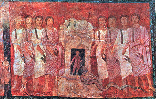 Elijah’s challenge of “the 450 prophets of Baal and the 400 prophets of Asherah who eat at Jezebel’s table” (1 Kings 18:19) is depicted in two scenes on the walls of the third-century C.E. synagogue at Dura-Europos in modern Syria.